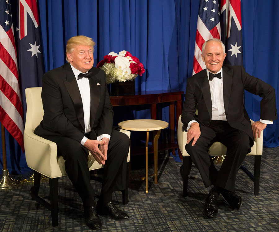 Donald Trump (President of the United States) and Malcolm Turnbull (Prime Minister of Australia) meet in person for the first time in New York City on 4 May, 2017.